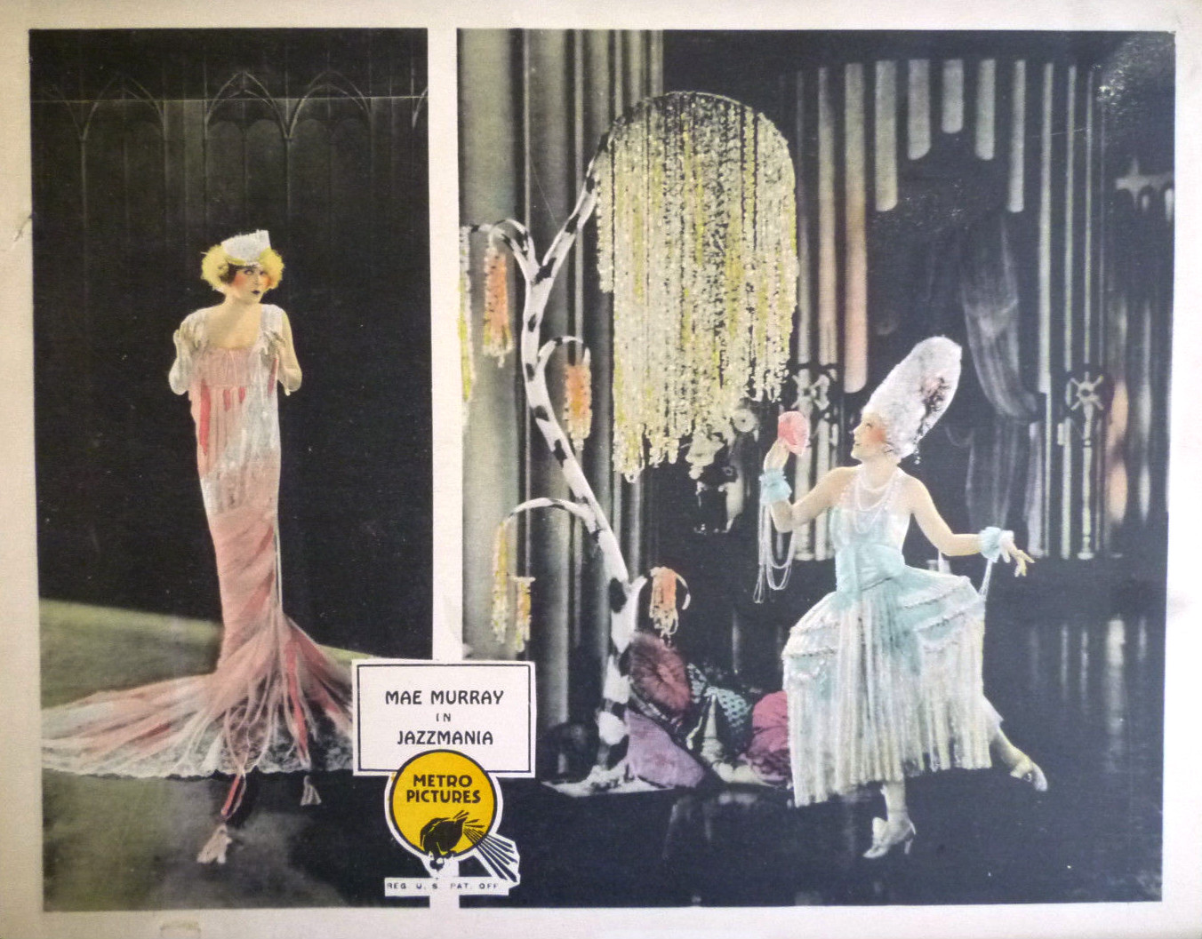 Lobby card for the American drama film Jazzmania (1923).